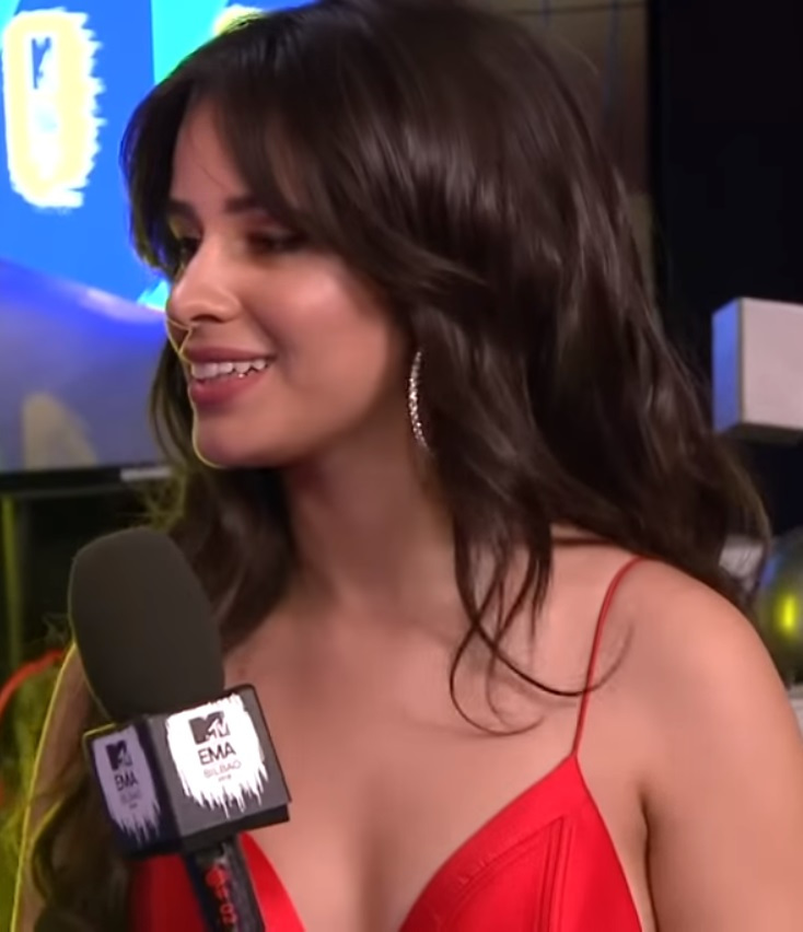 Here is the interview that you didn't get to see on the MTV EMAs 2018, Camila Cabello's feelings on presenting the award to Global Icon Janet Jackson!